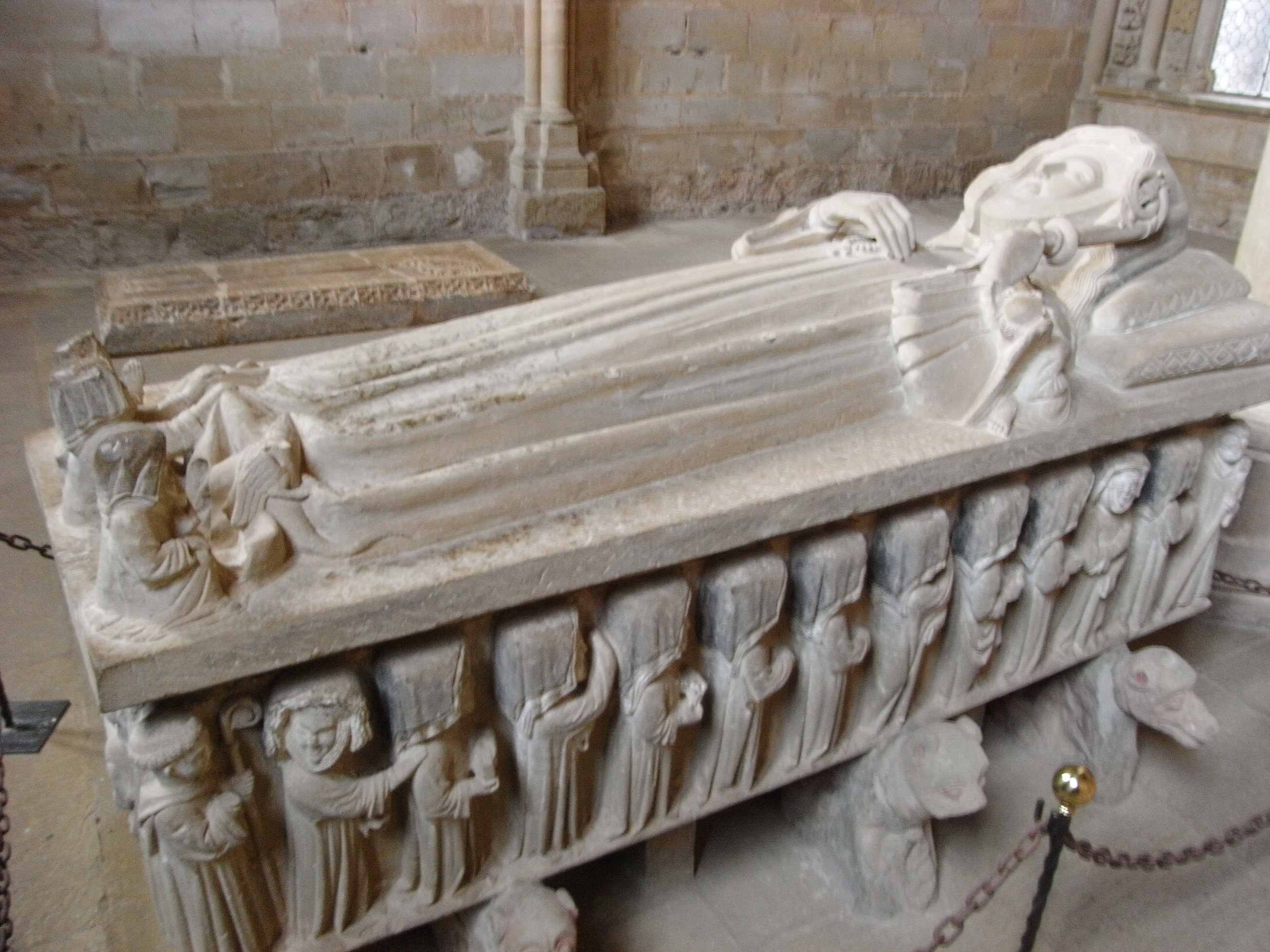 The tomb of Urraca Díaz de Haro (c. 1192 – 1262), daughter of Diego López II de Haro (a magnate of the first rank under Alfonso VIII of Castile) and Toda Pérez de Azagra, and wife of Count Alvaro Núñez de Lara, in the Monastery of Cañas in Cañas, La Rioja, Spain.